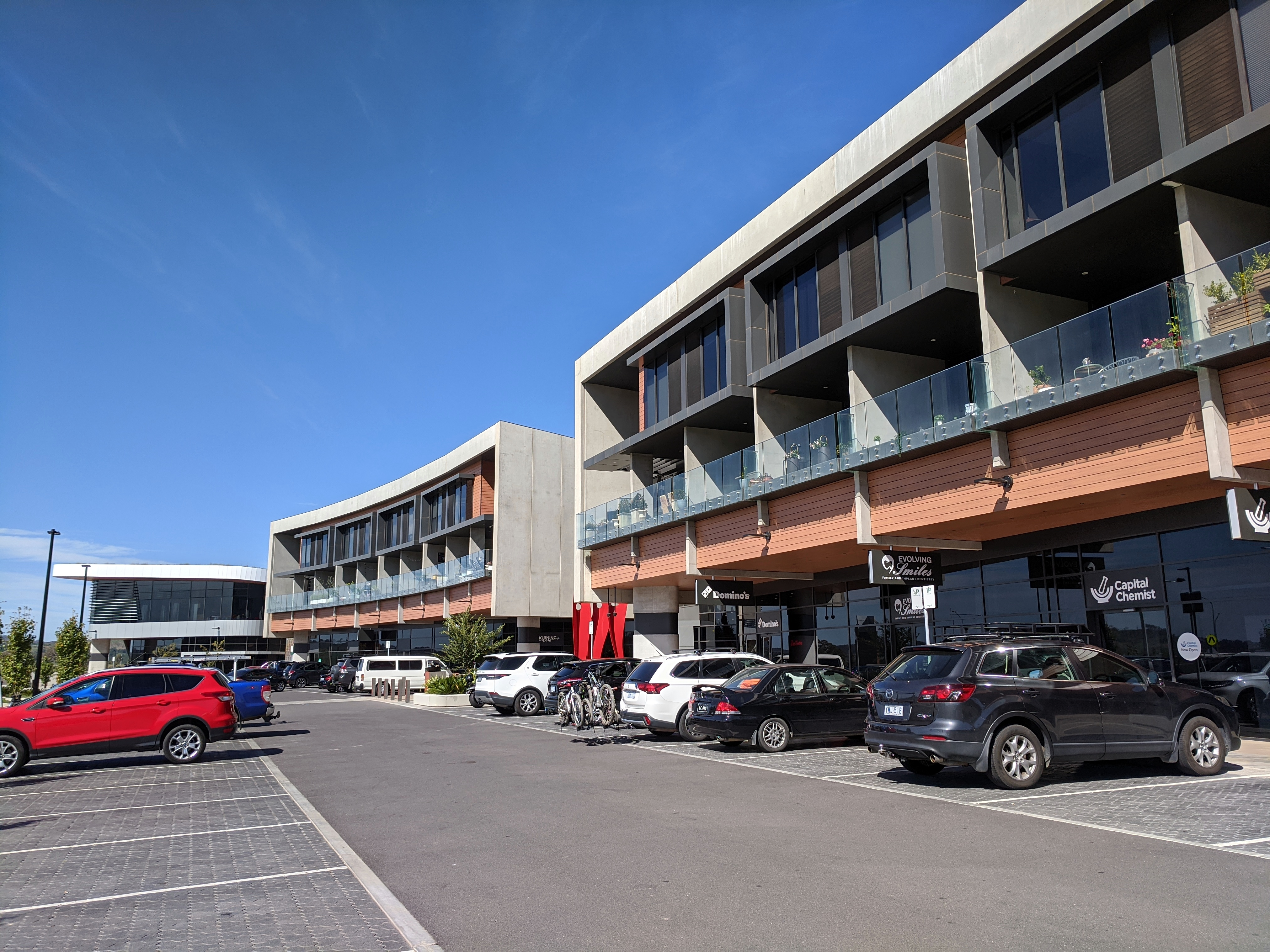 The Denman Village shops